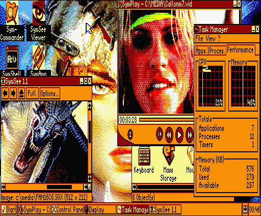 SymbOS MSX running in Screen 7 (16 colours and 512x212 pixels).